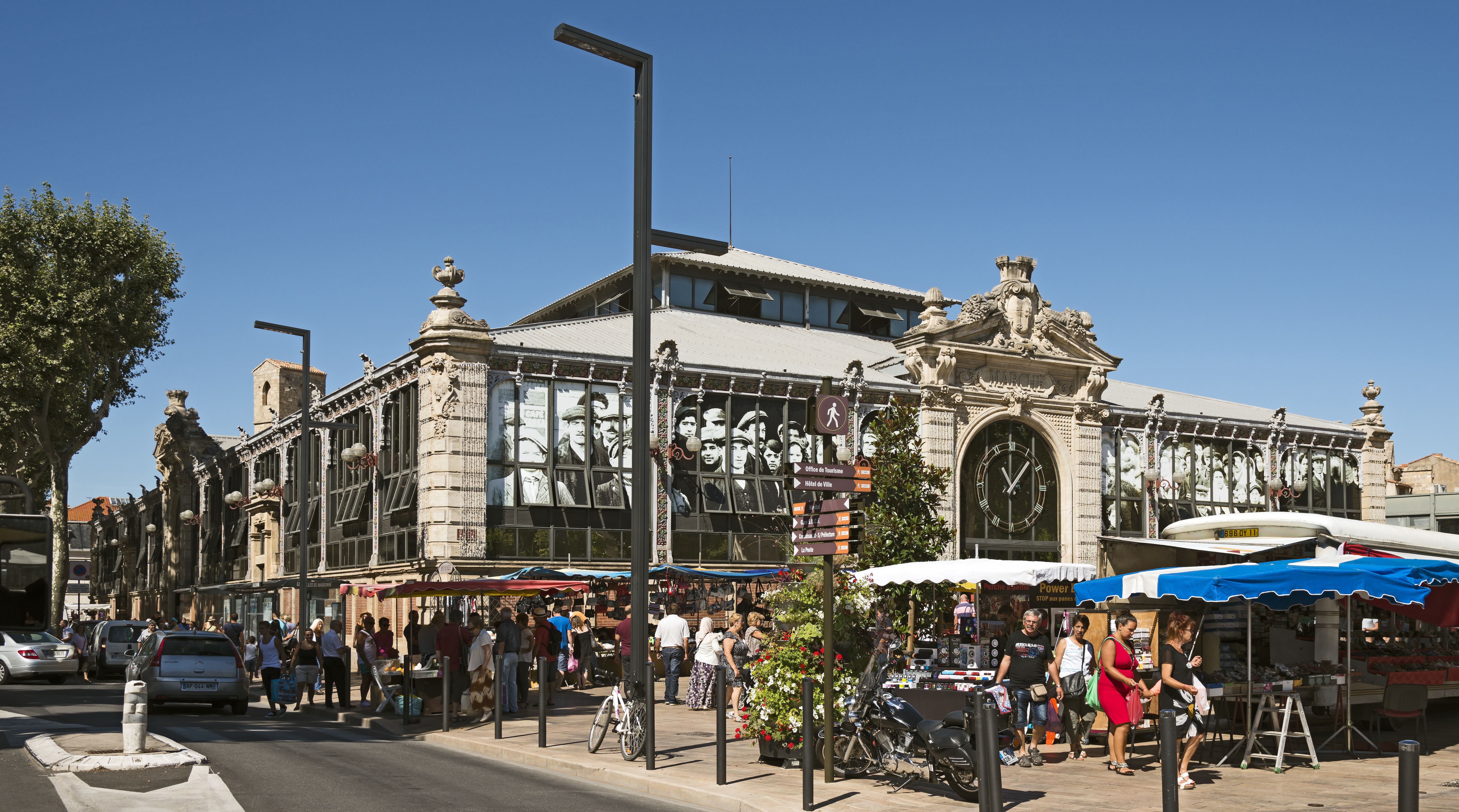 Market Hall of Narbonne, facade on cours Mirabeau.